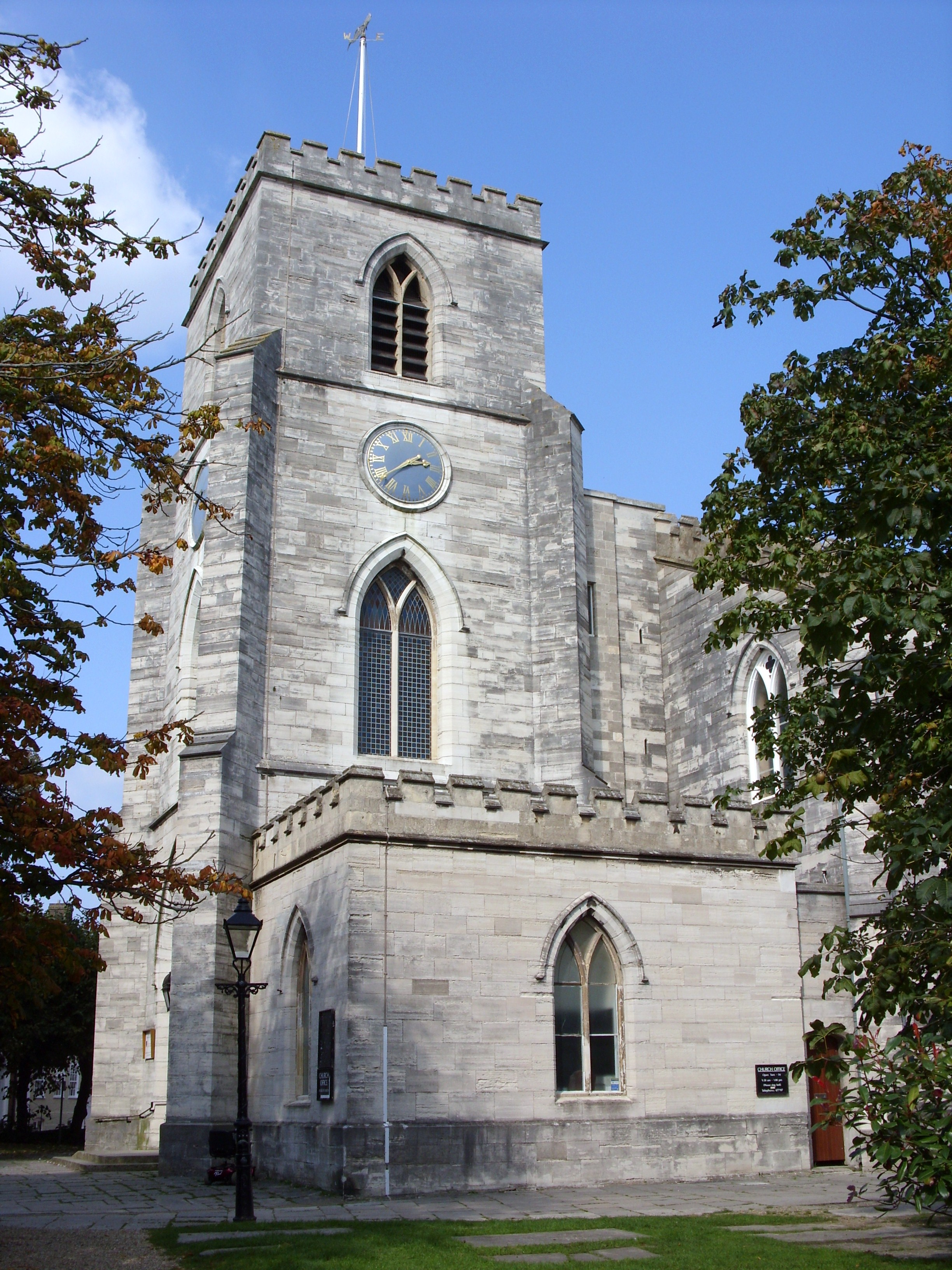 The Parish Church of St. James in Poole. Built in 1819, it replaced the previous church which had stood there since the 16th century.